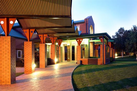 An evening view of the African Leadership Academy